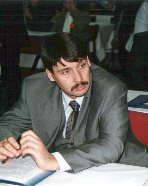 János Áder is Hungarian politic, 2000. My own picture. Creator by Rita Molnár. 2000